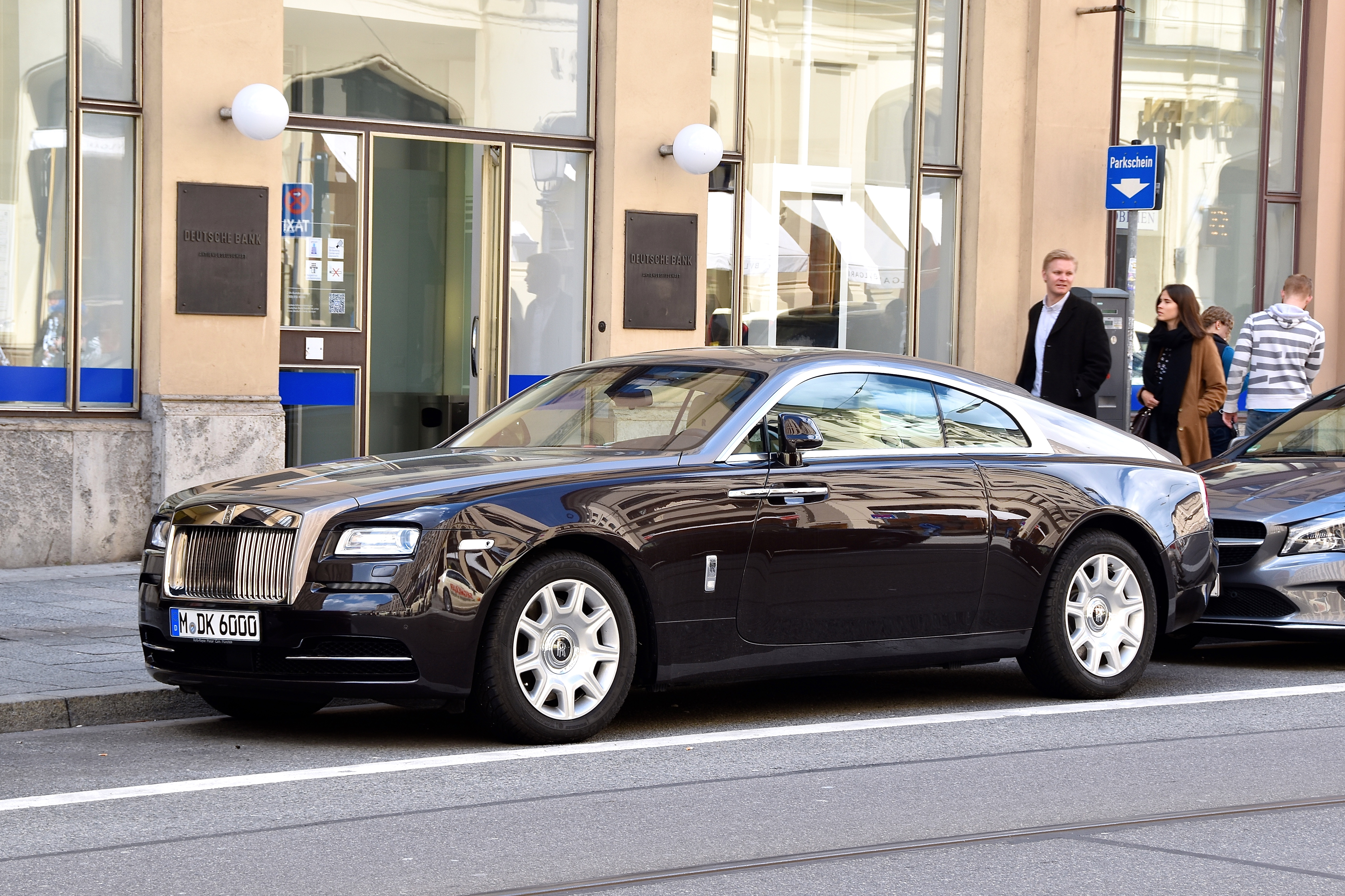 Uiteraard gespot in de Maximillianstrasse in München, As always, if you have to ask, you can't afford it.